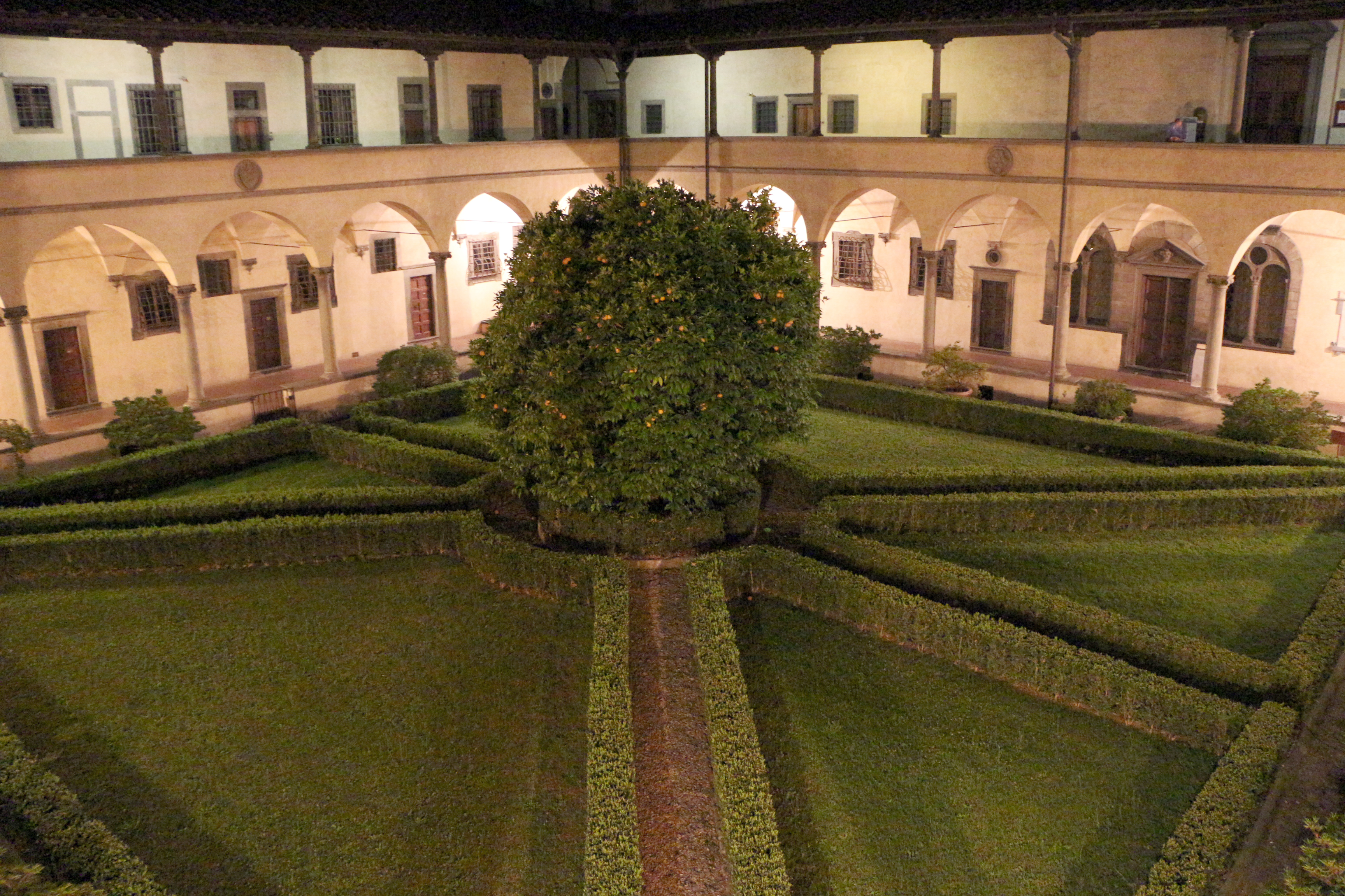 Interior of the Basilica of San Lorenzo (Florence)